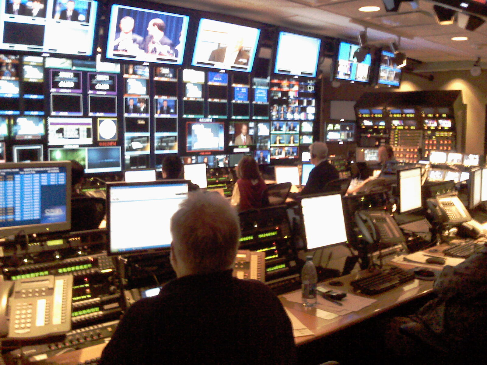 NBC Nightly News broadcastNightly News Broadcast